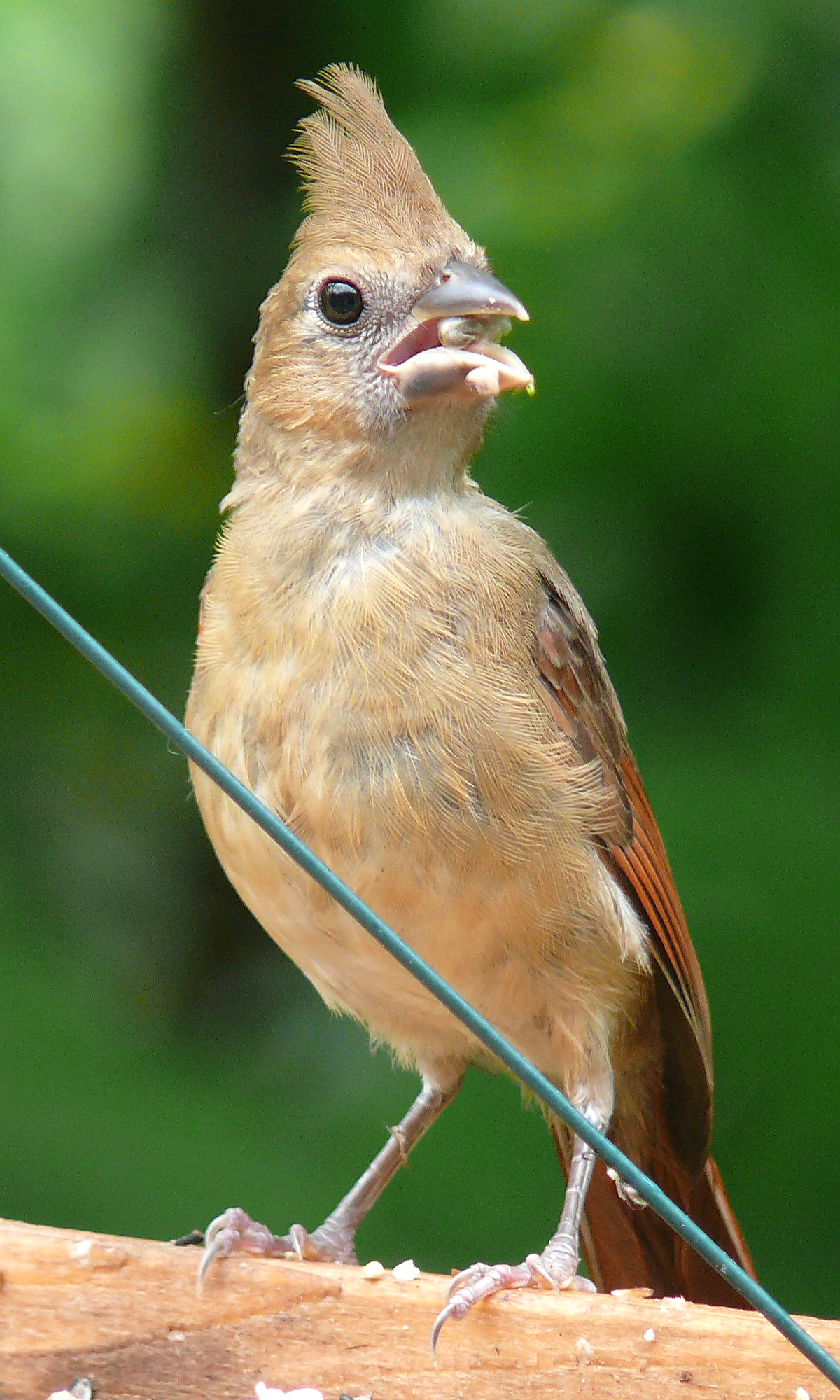 A fledgling Northern Cardinal (Cardinalis cardinalis) approximately one week after leaving the nest.Photo taken with a Panasonic Lumix DMC-FZ50 in Johnston County, North Carolina, USA.